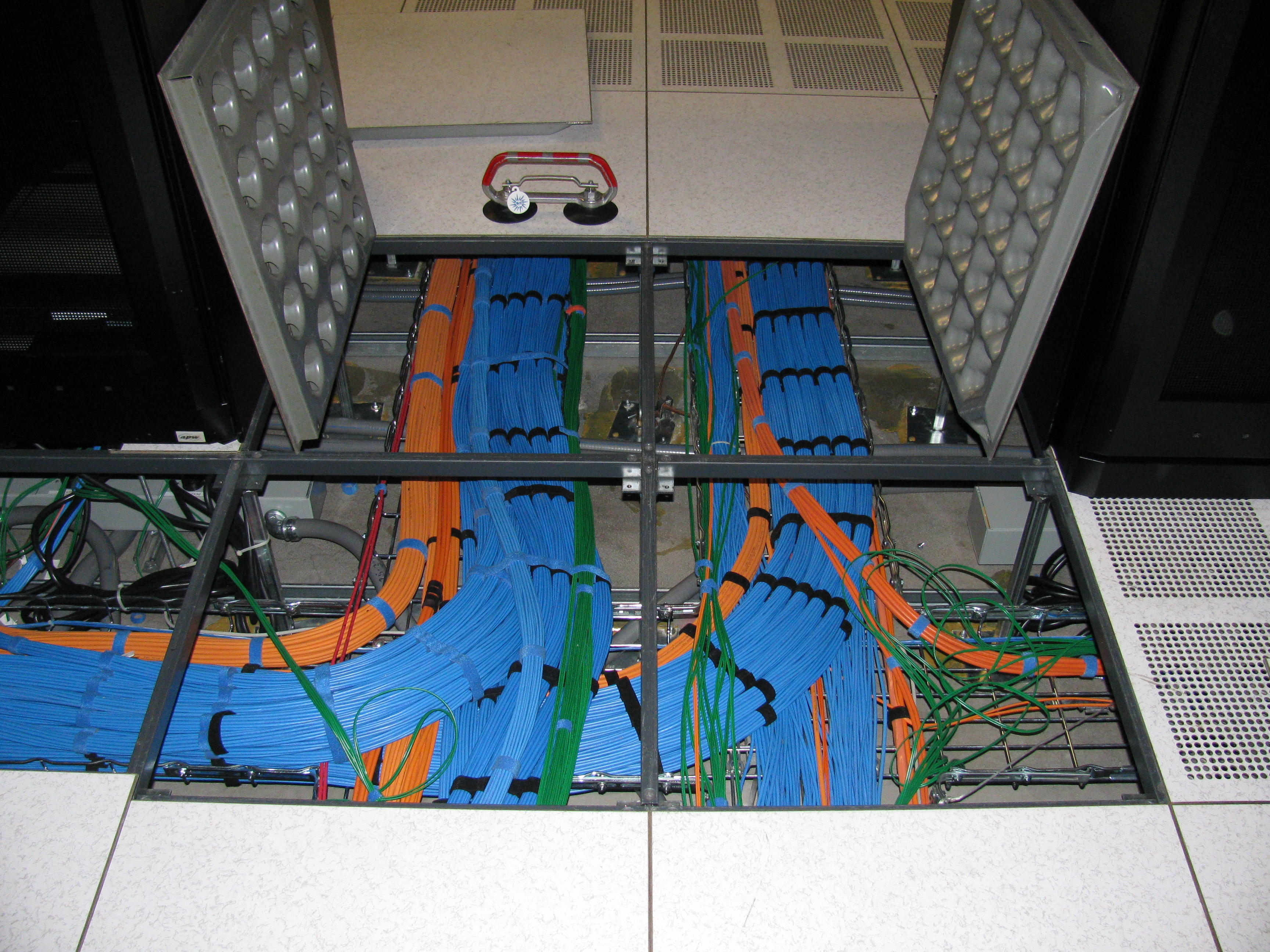 Under Floor Cable Runs Tee